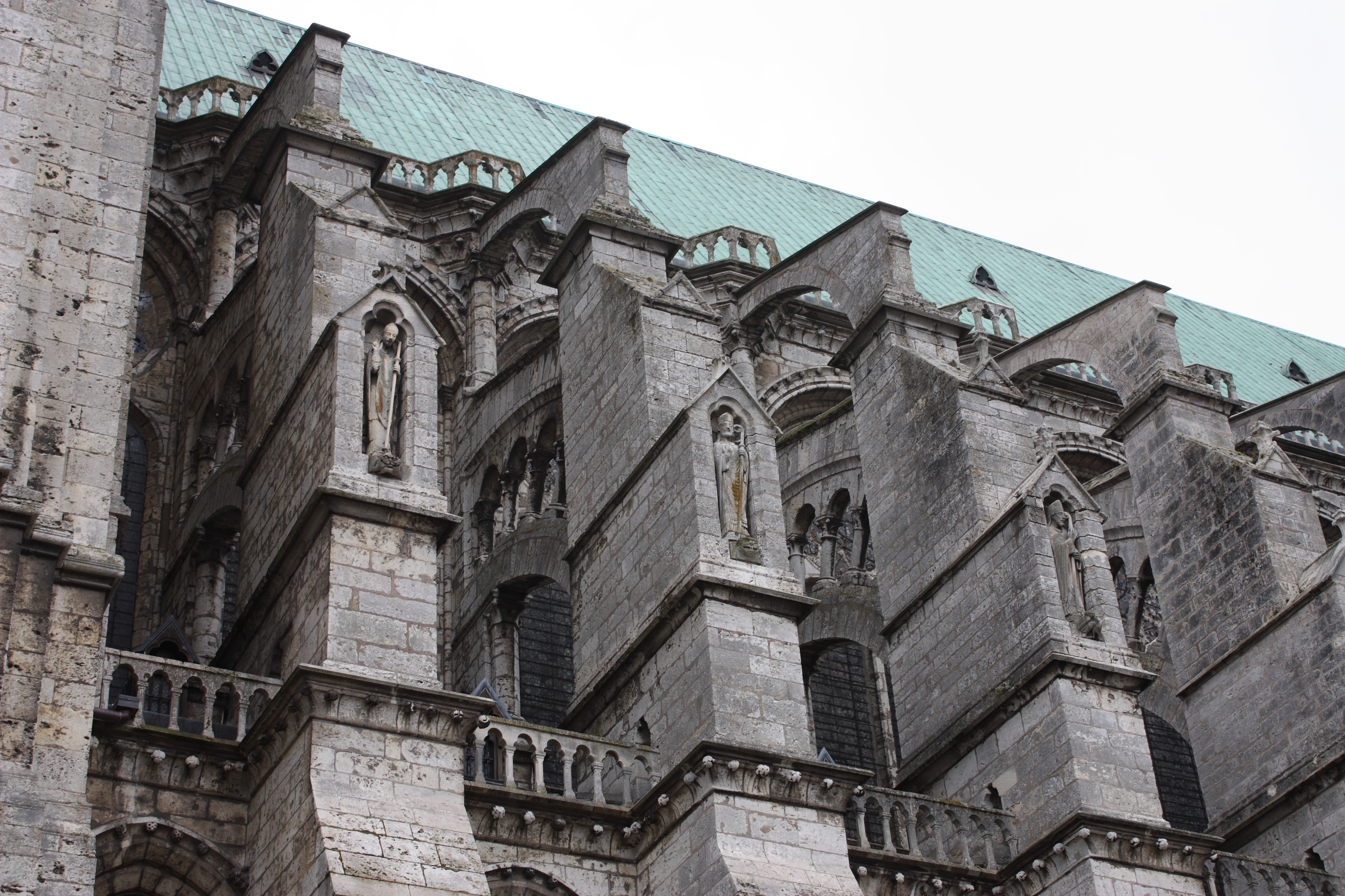 The flying buttresses of the nave of Chartres Cathedral.